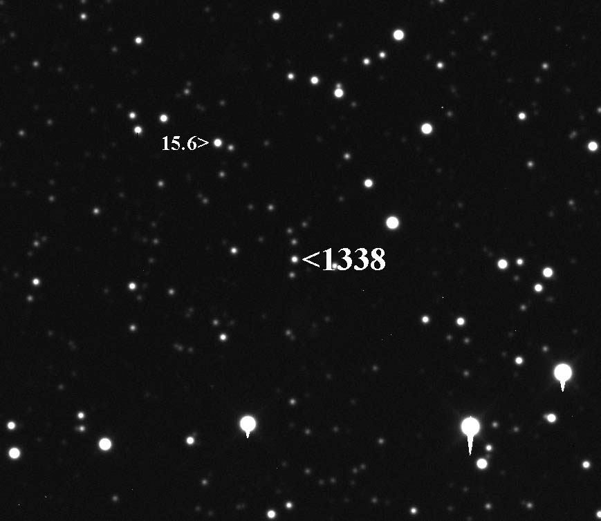 4 minute exposure of asteroid 1338 Duponta with a 24" telescope. 1338 Duponta is about apparent magnitude 15.6 in this image taken at 2009-10-27 11:15 UT. The star to the upper left of Duponta (jump triple+double+double+double) is magnitude 15.6. Duponta was 1.3AU from the Earth. Photometric observations show that Duponta is a binary system.